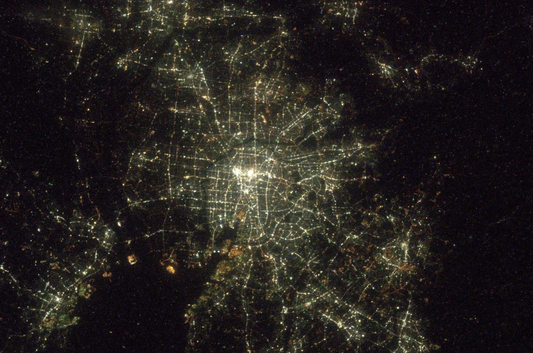 Aerial photographs of Nagoya Night view